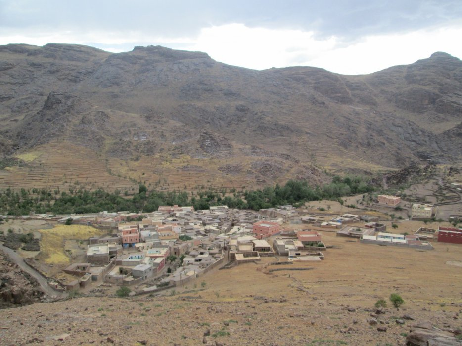 islane min taghrat